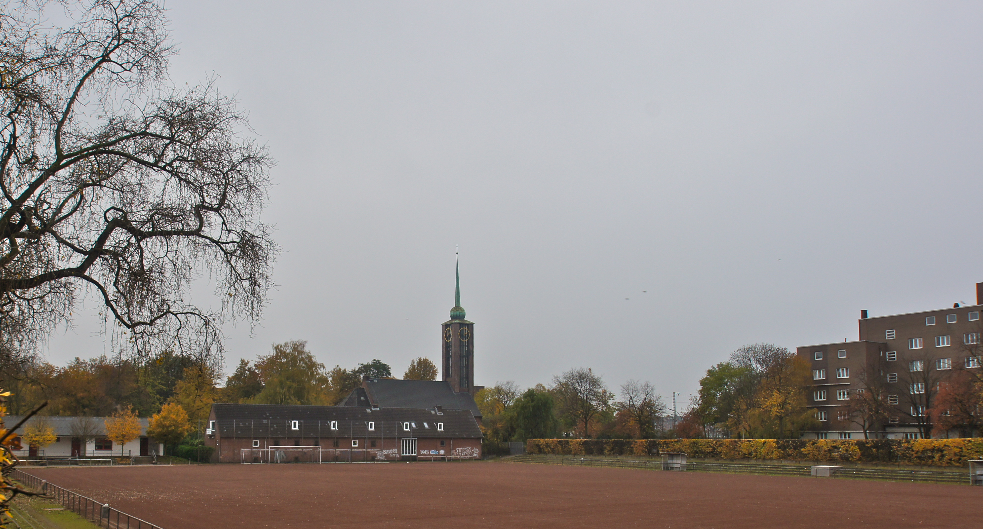 Hamburg (Veddel), Germany: Panorama with the Emmanual Church